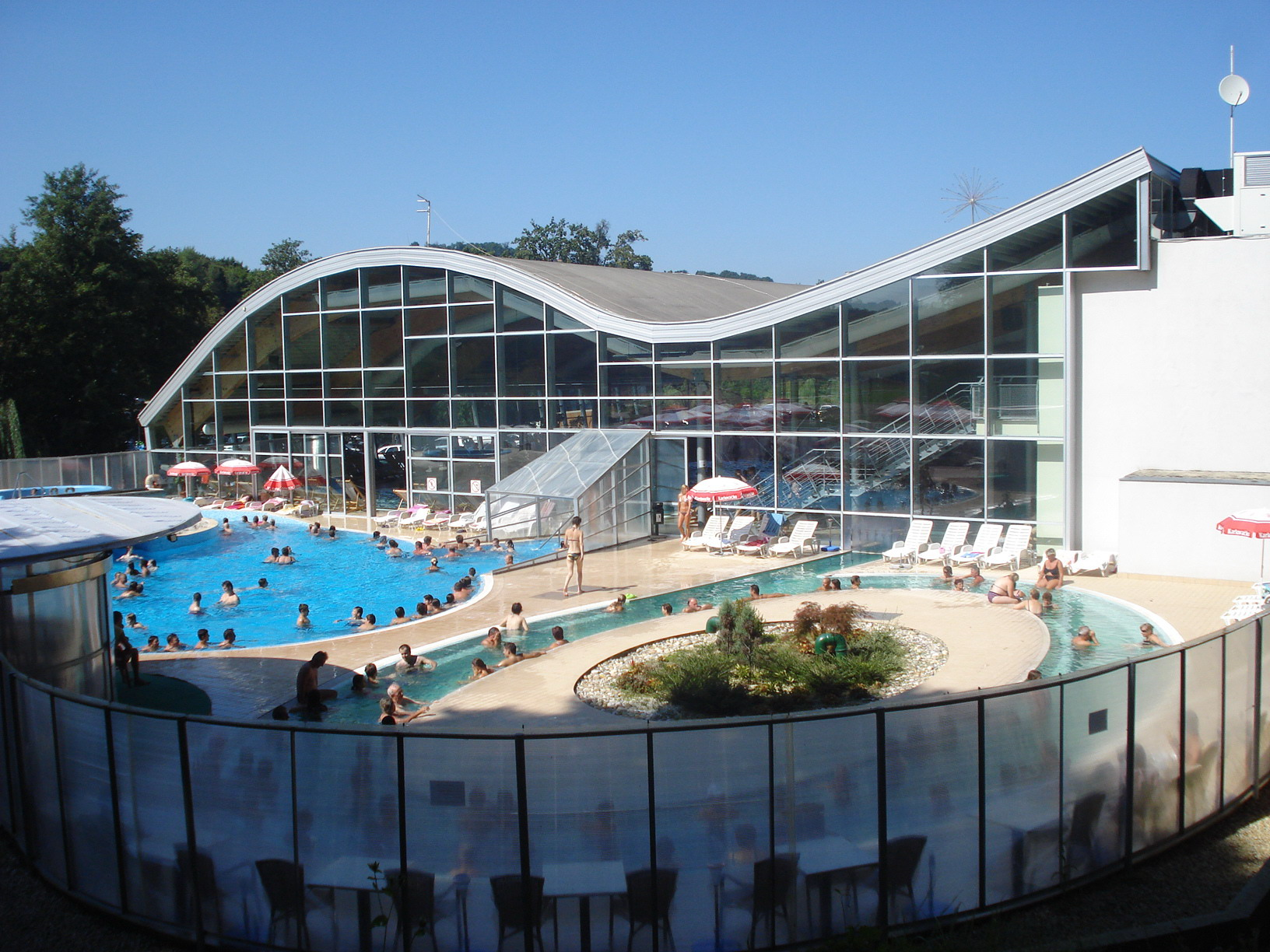 Vučkovec (Croatia) - spa complex (southern part)